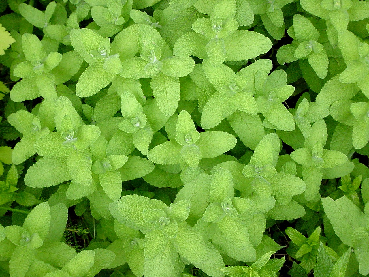 Applemint_Herb（Aomori.Japan）